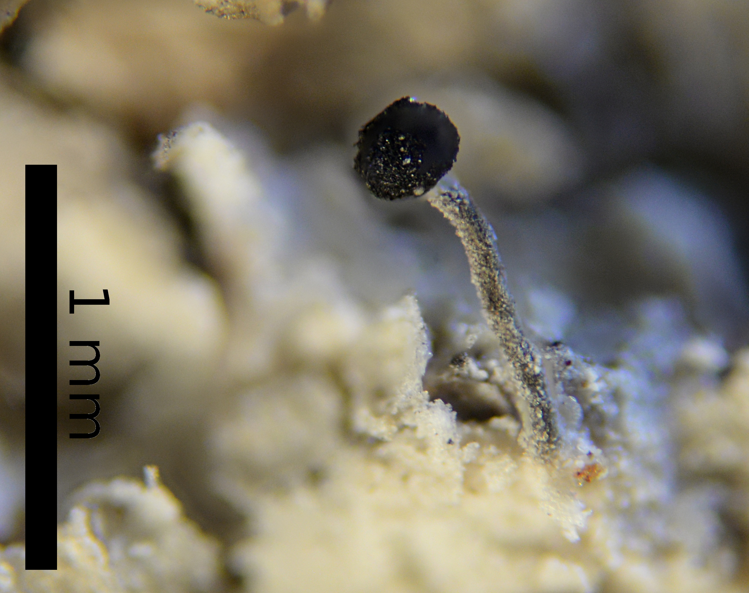 Chaenothecopsis viridialba (Kremp.) A.F.W.Schmidt Leg.: Veli Rasanen Specimeh herbarium H